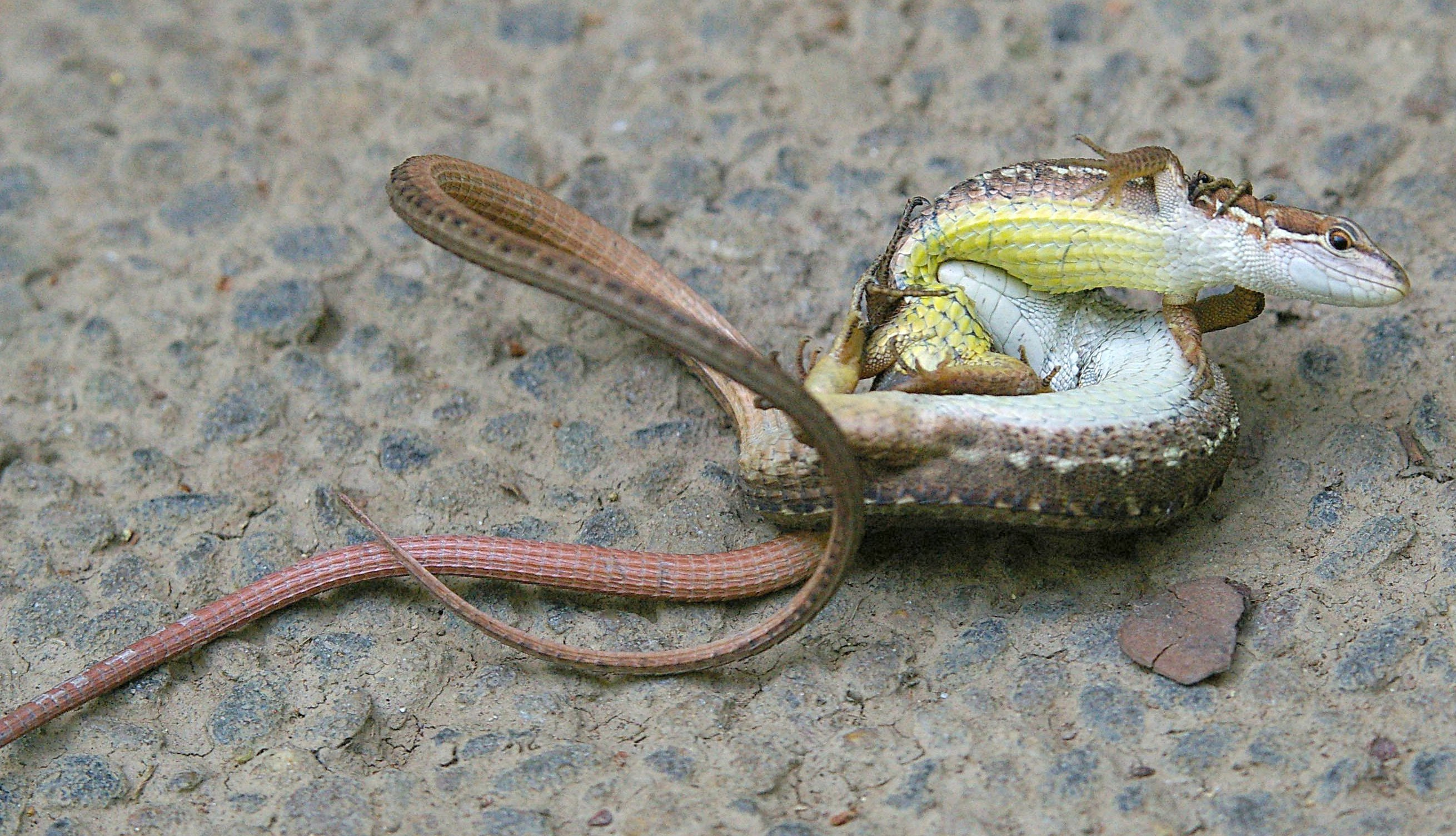 Two Japanese grass lizards (Takydromus tachydromoides) copulating, Japan, Tsukuba